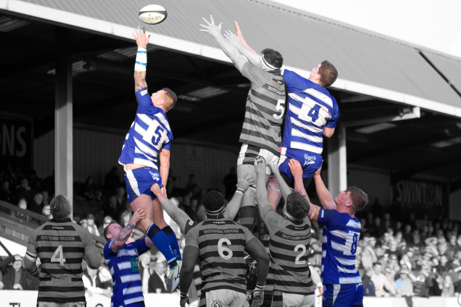 A game during the 2016-17 Season at Heywood Road